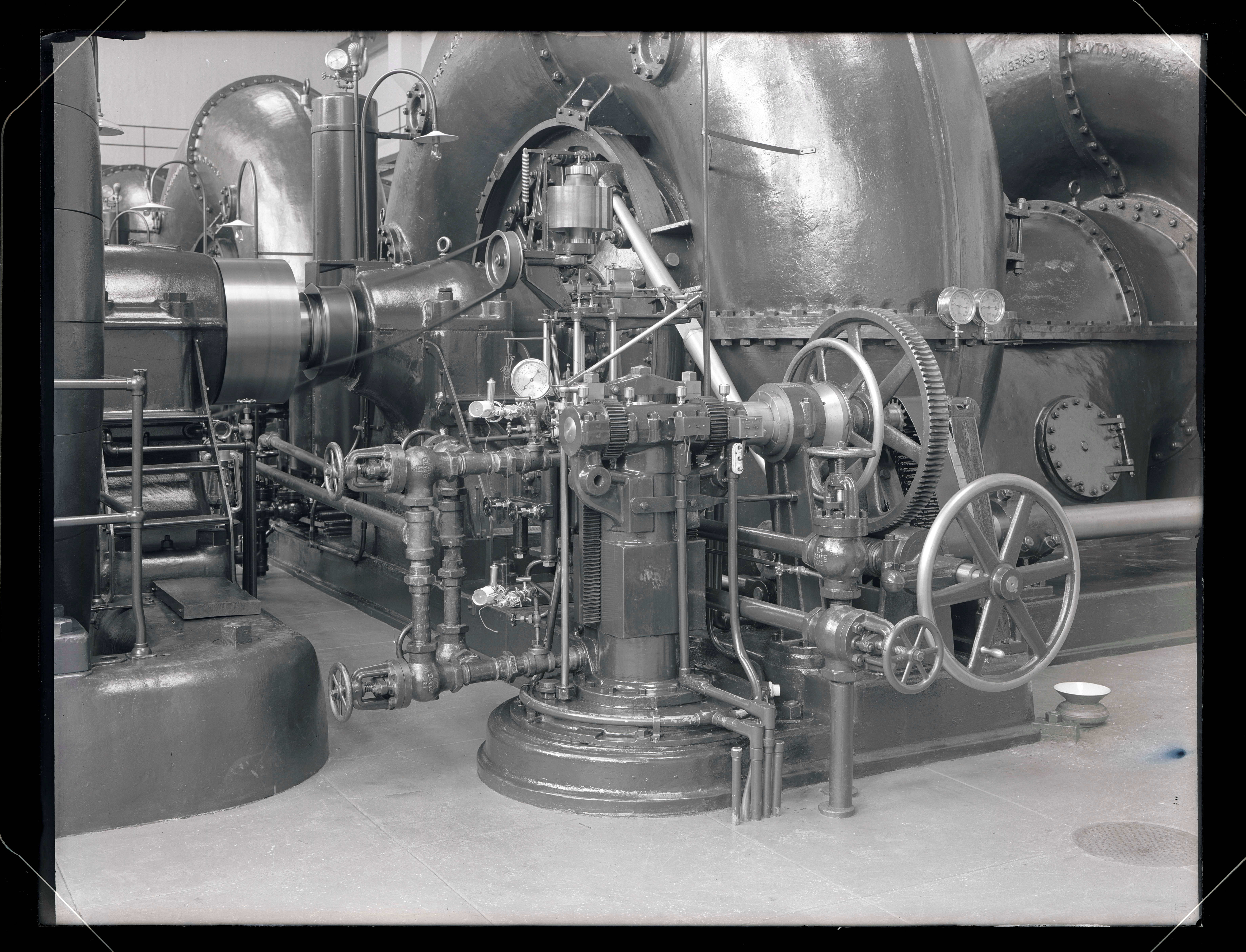 River mill hydroelectric project. glass plate negative